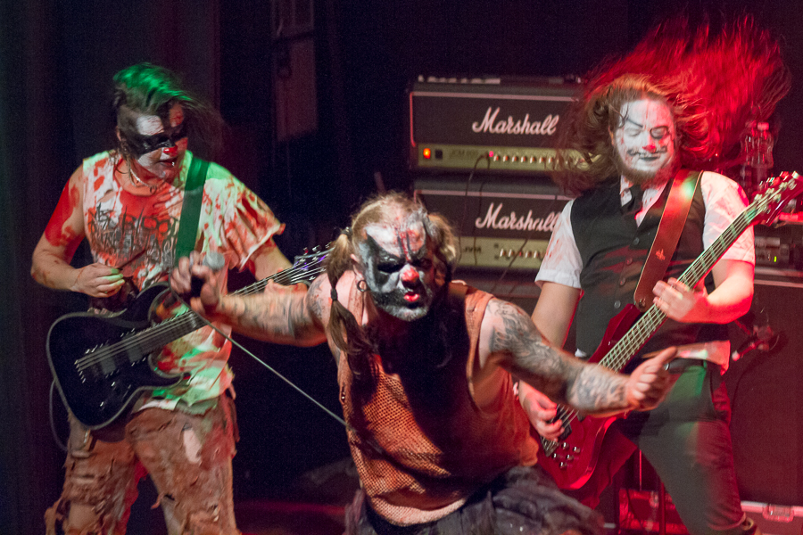 A concert picture taken during the 2012 tour